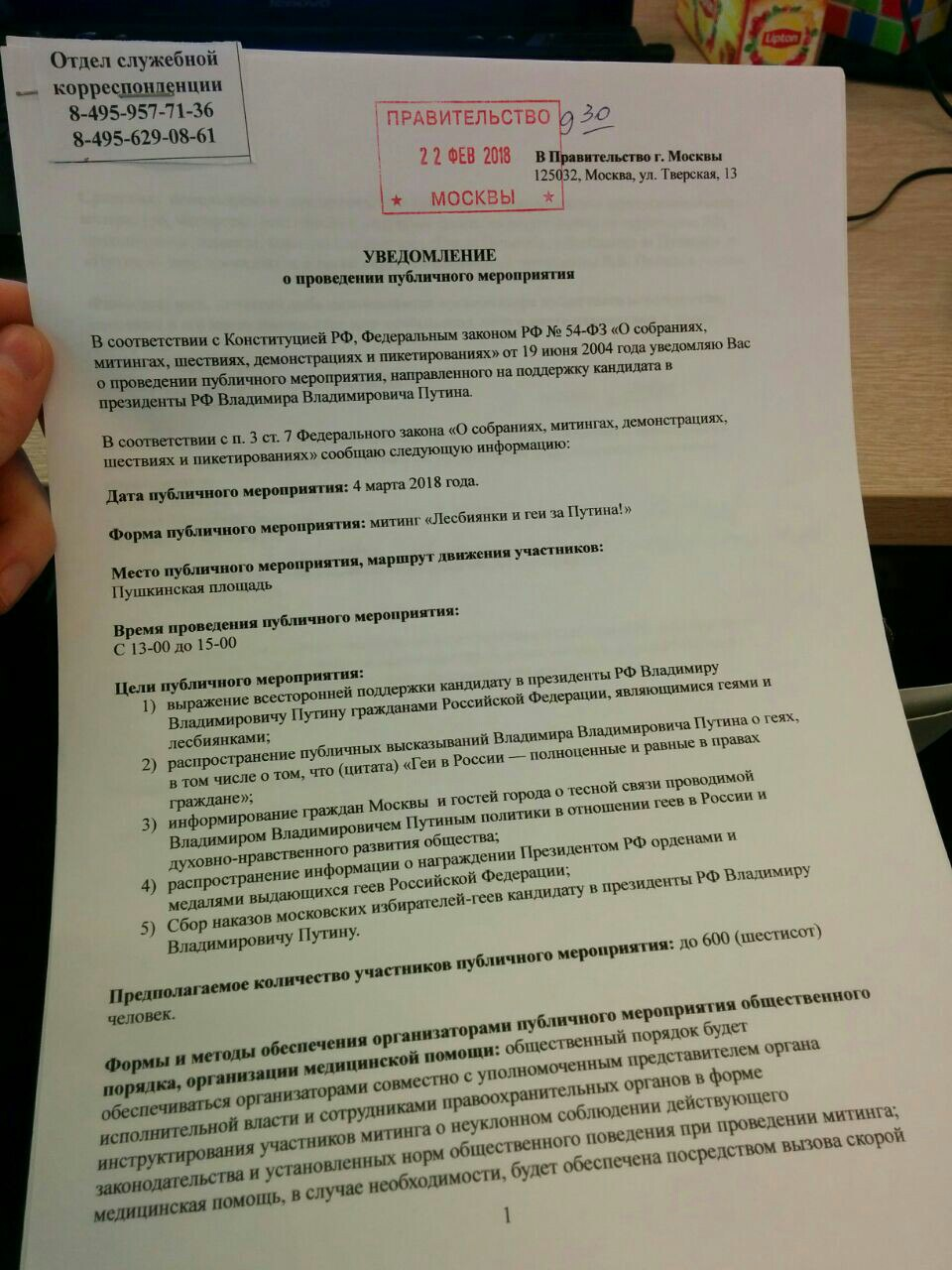 permit for LGBT rally in Moscow